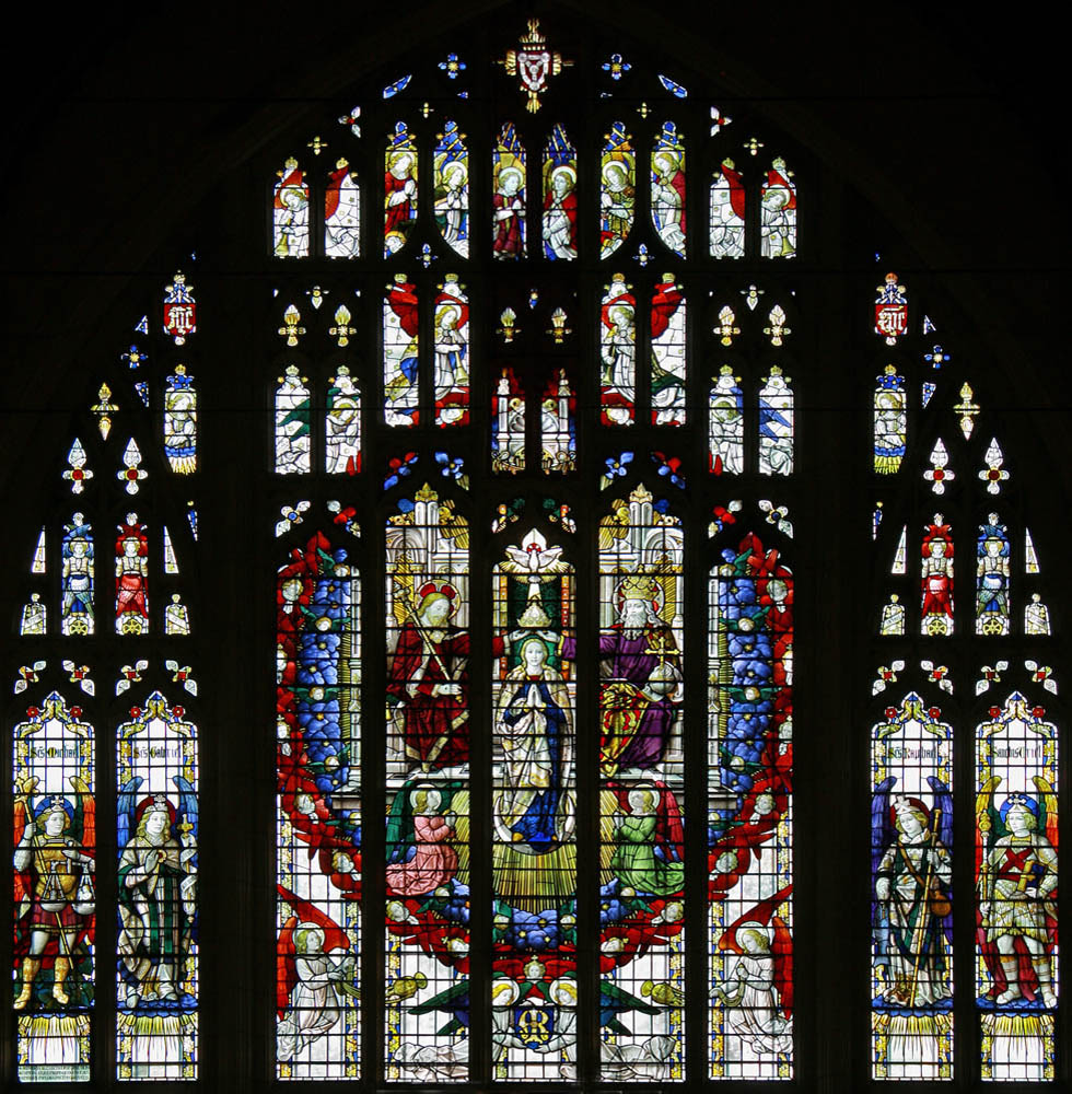 St Benedict's Ealing Abbey, Charlbury Grove, London W5 - West window by Burlison & Grylls, depicting the Coronation of the Virgin attended by the Heavenly Host.